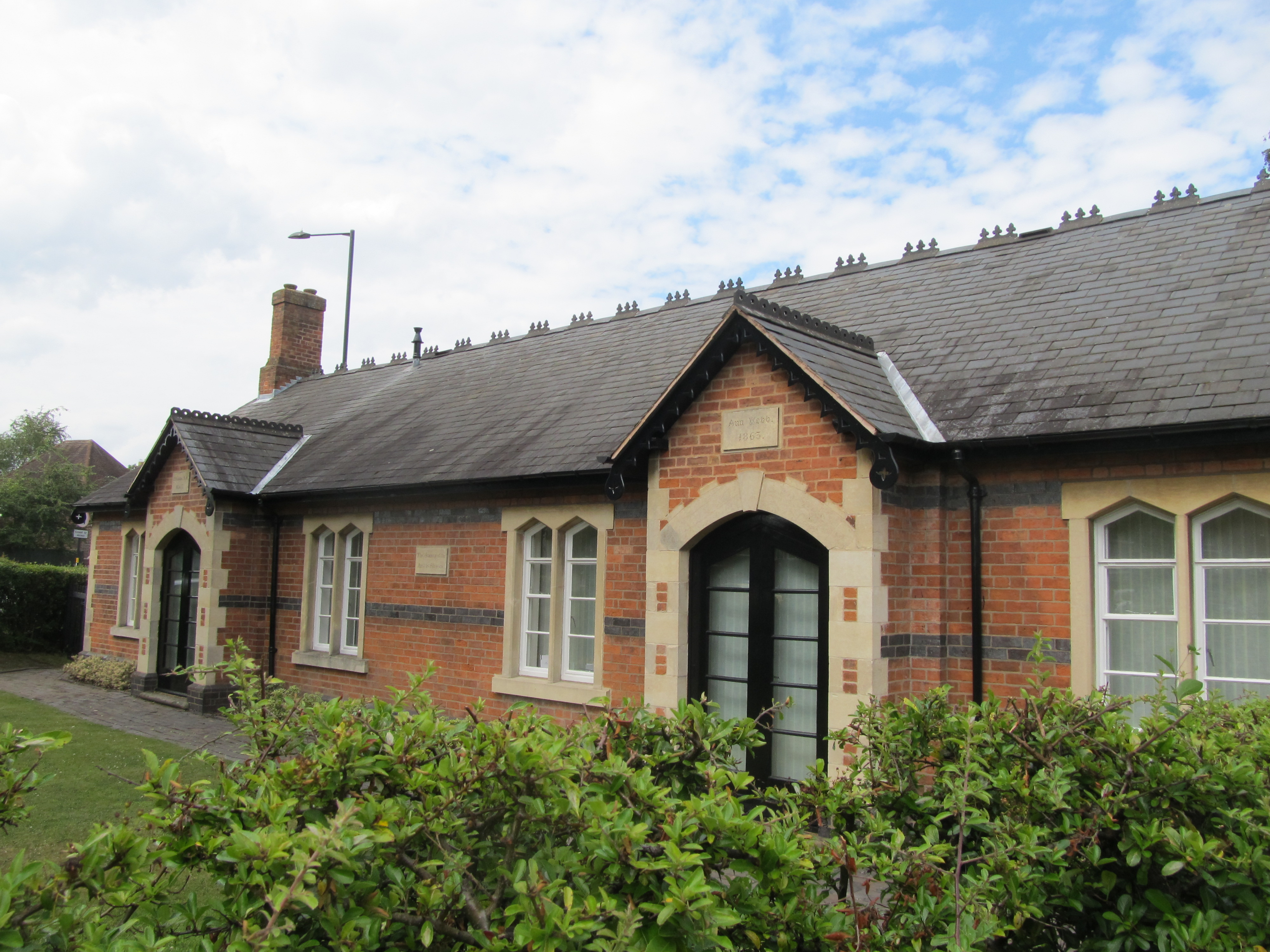 First Walmley Almshouses, Royal Sutton Coldfield